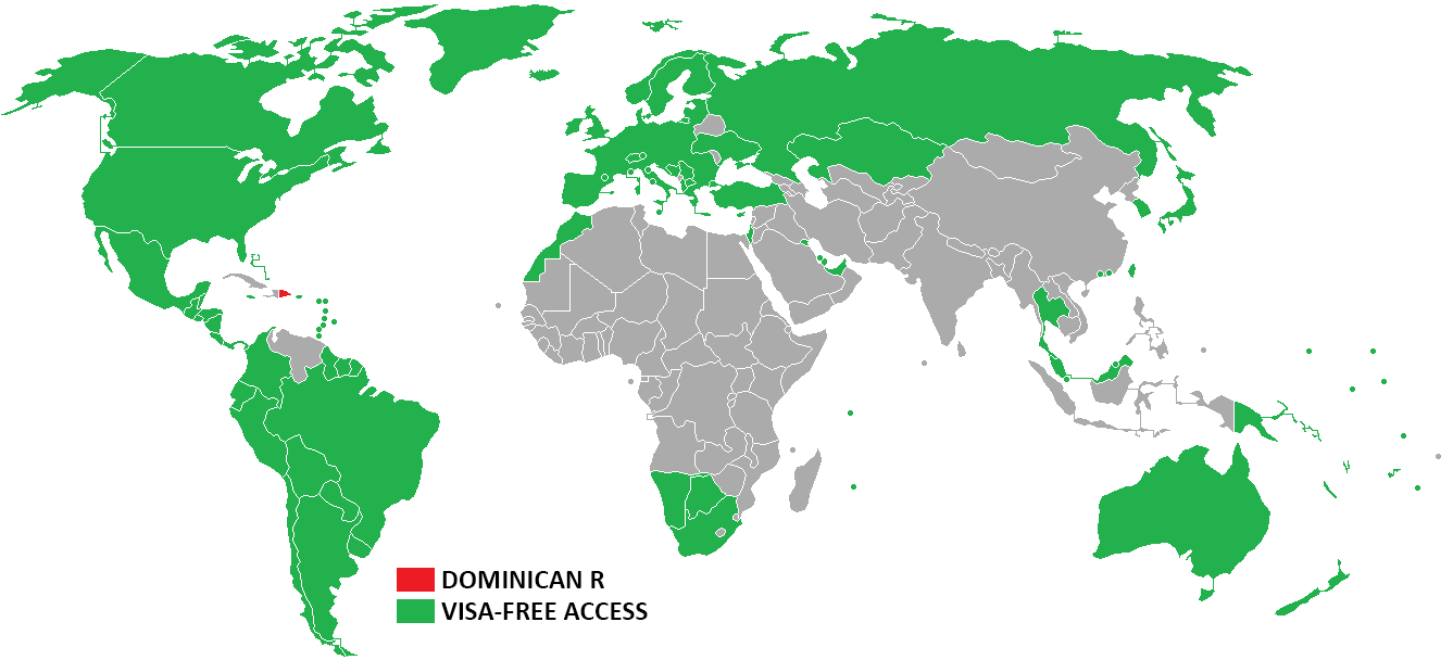 Map showing countries who do not require a visa to visit the Dominican Republic Dominican Republic Countries with visa-free access to Dominican Republic Visa required for entry to the Dominican Republic